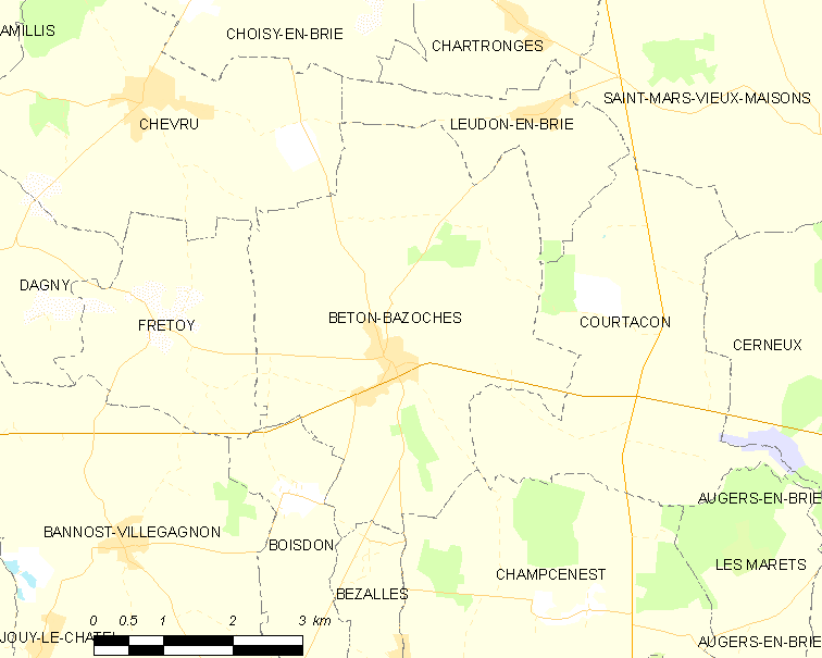 Map of French municipality Beton-Bazoches